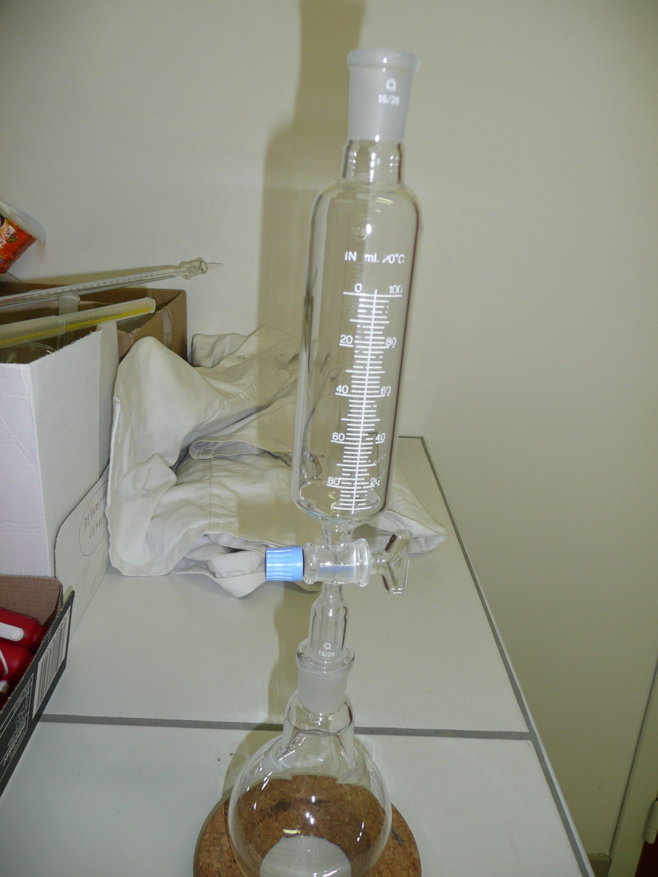 Dropping funnel